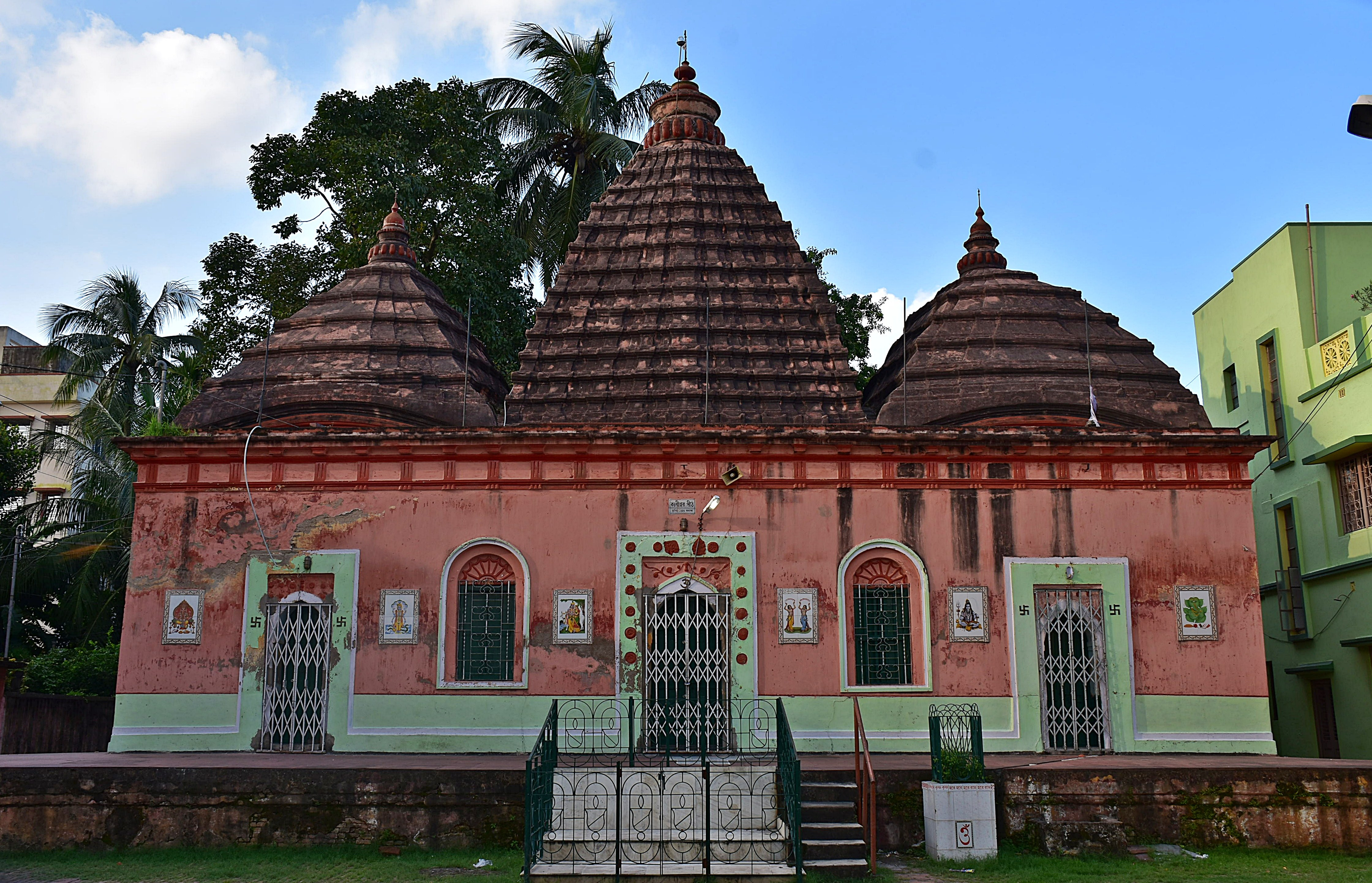 Temple of Gour Chandra and Krishnachandra at Chatra